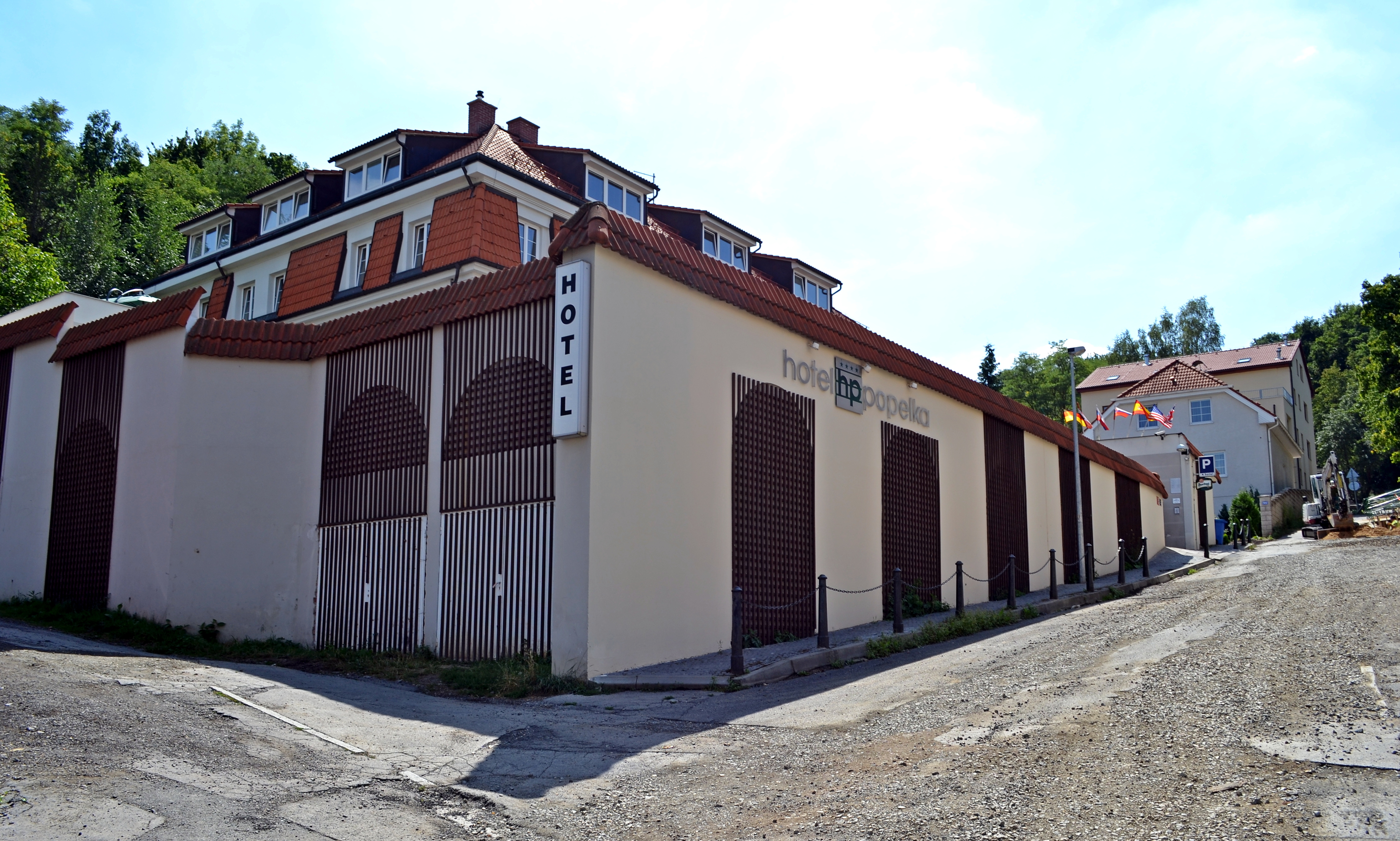 Former house Popelka after reconstruction, now Hotel Popelka. Na Popelce street, Smíchov, Prague 5, Czech Republic.